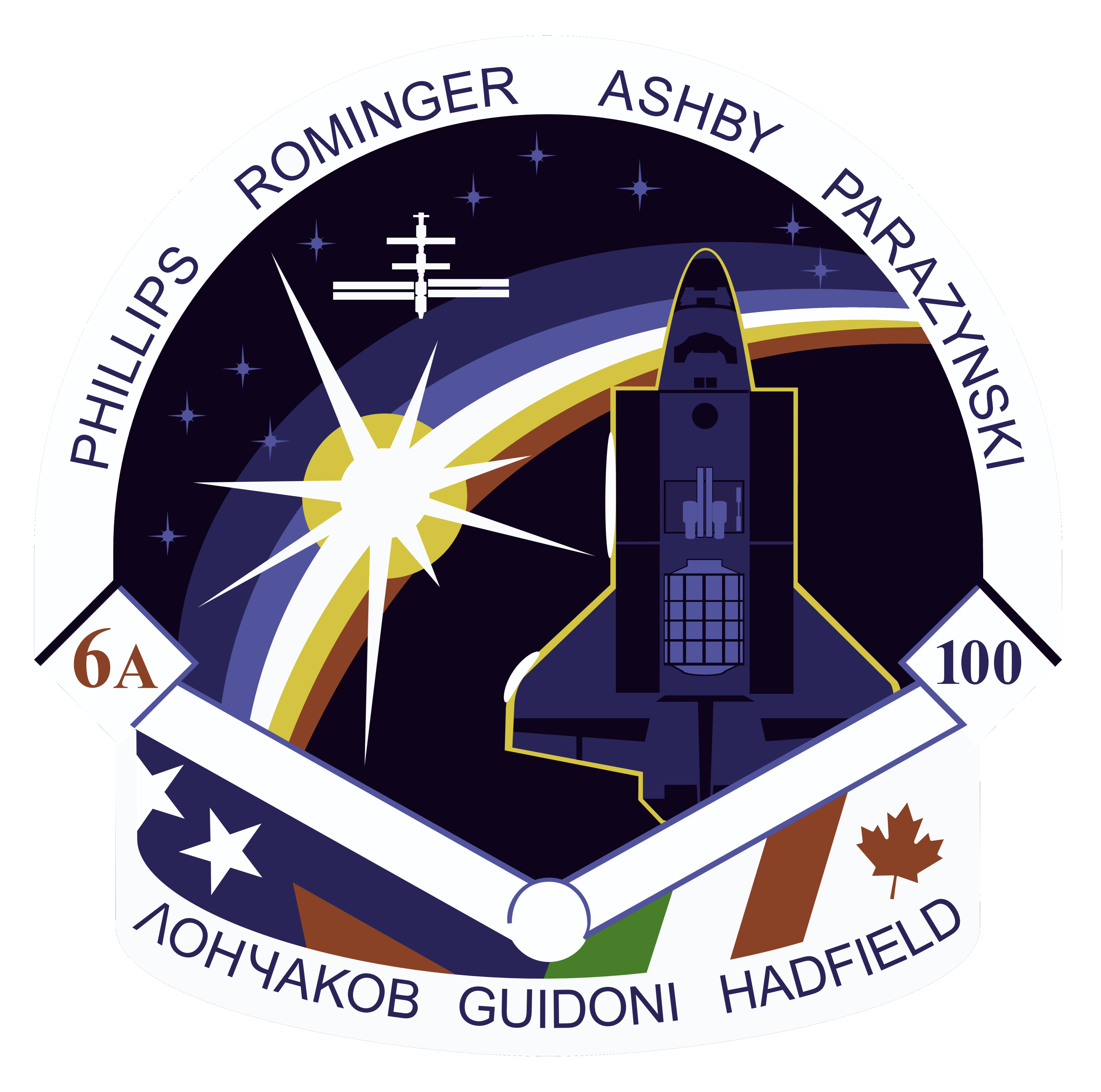 STS-100 Patch